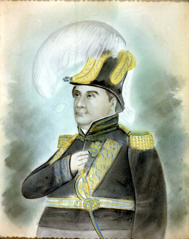 Manuel Armijo, the Governor of New Mexico, (b.1793-d.1853)